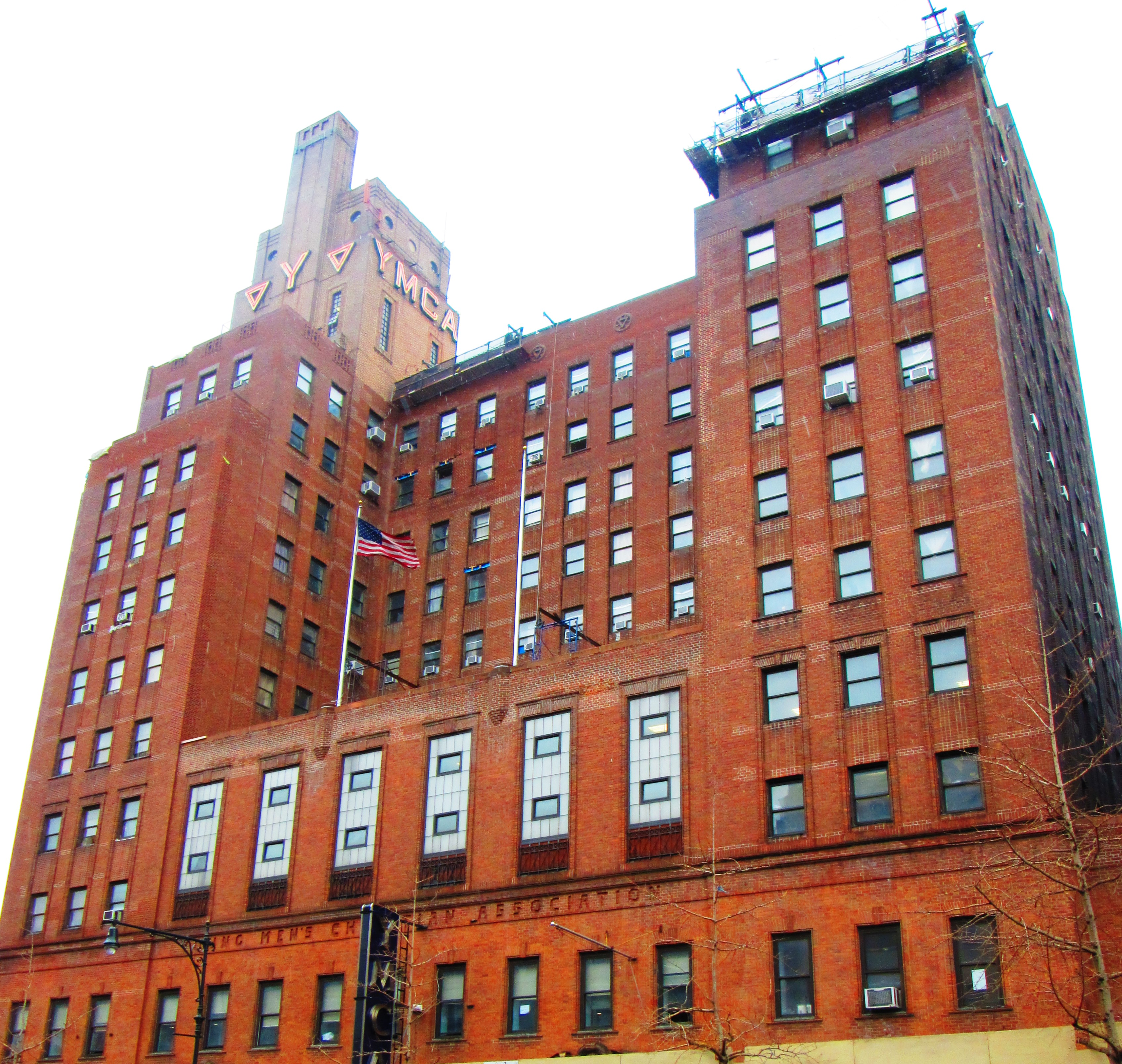 The Harlem YMCA, also known as the Claude McKay Residence, is located at 180 West 135th Street between Lenox Avenue and Adam Clayton Powell Jr. Boulevard in the Harlem neighborhood of Manhattan, New York City. Built in 1931-32, the red-brown brick building with neo-Georgian details was designed by the Architectural Bureau of the National Council of the YMCA, with James C. Mackenzie, Jr. as the architect in charge. (Source: NYC Guide to NYC Landmarks (4th ed.))